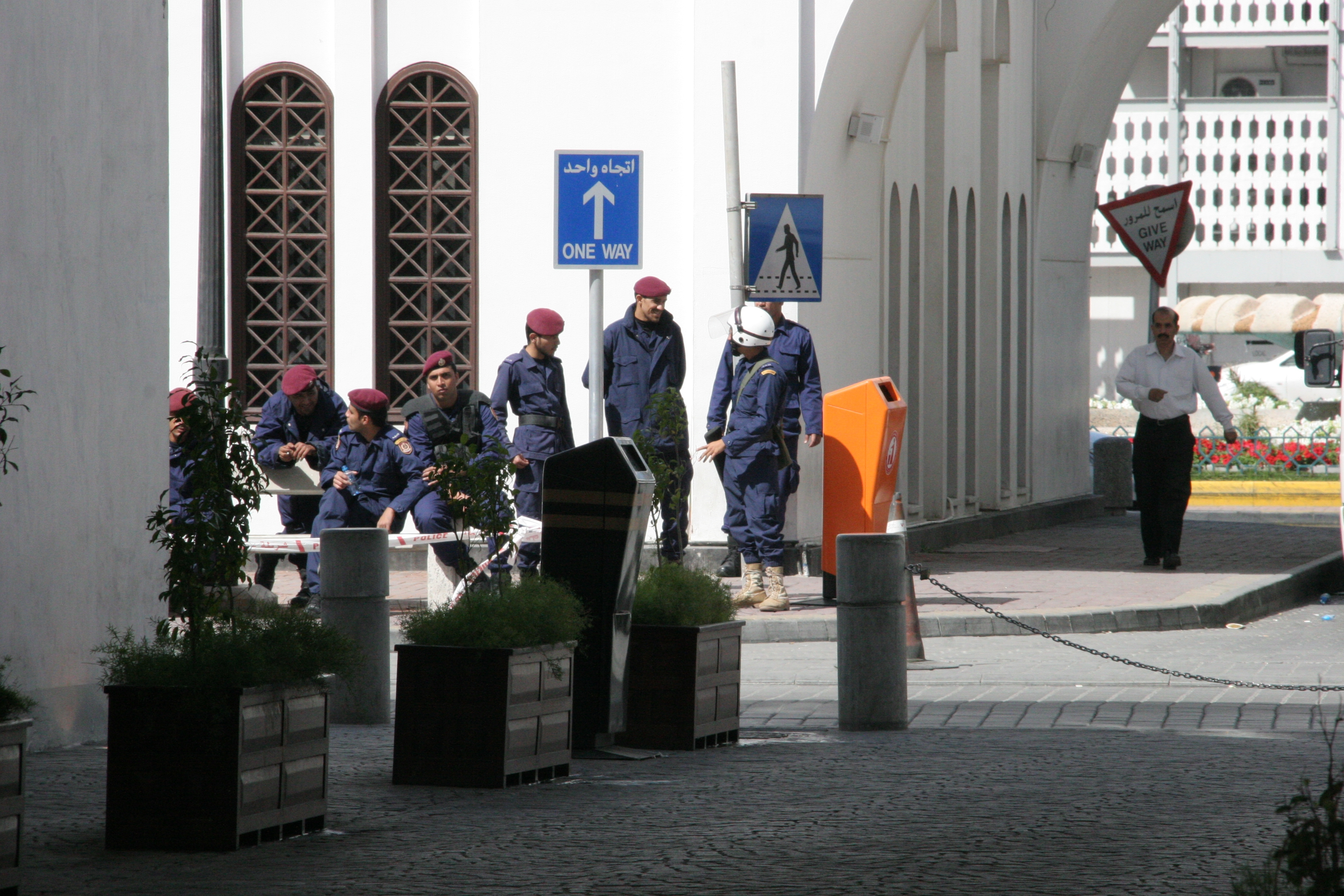 Bahraini police men hanging around In Bahrain, witnesses say riot police have tried to disperse protesters with tear gas and rubber bullets. The clashes took place as officers attempted to stop people gathering for a major rally in the capital, Manama. It follows demonstrations on Sunday, with protesters calling for reform in the island kingdom. Bahrain has Sunni muslim rulers but the population is 70 per cent Shia, who claim they are regularly discriminated against.